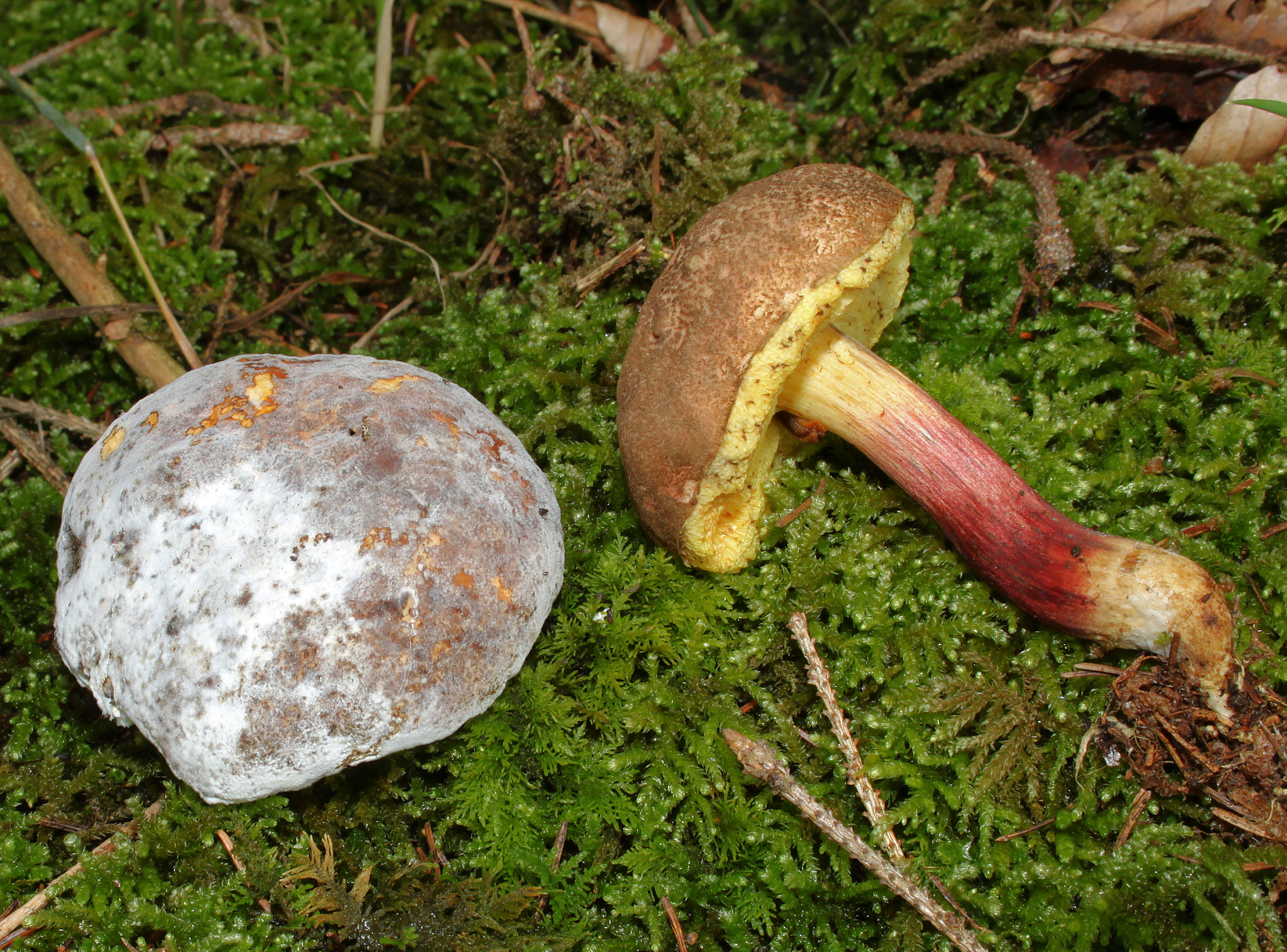 Red Cracking Bolete Boletus chrysenteron (Left side: Old fungi often show mildew), Family: Boletaceae, Location: Germany, Ulm, Eggingen